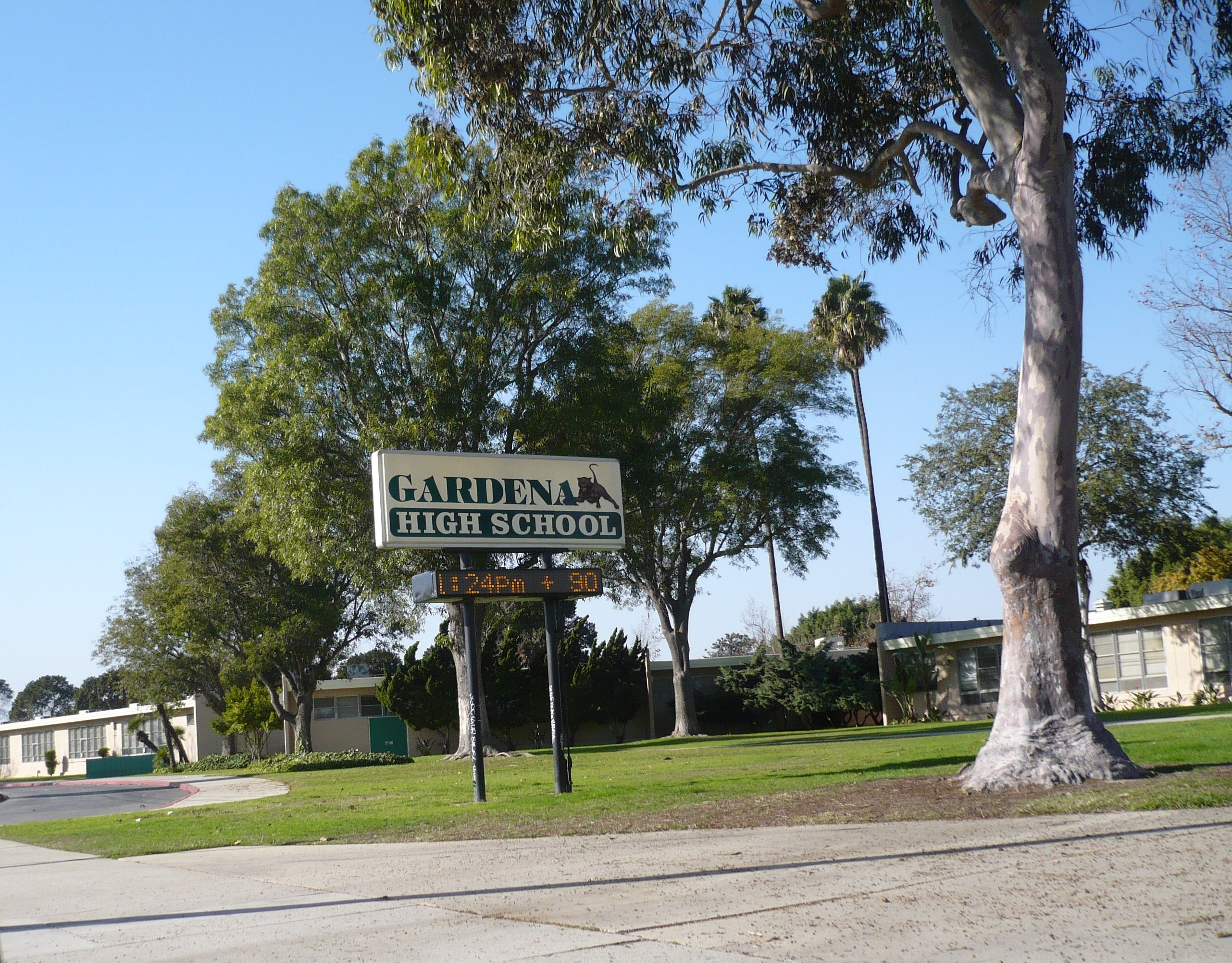 Gardena High School